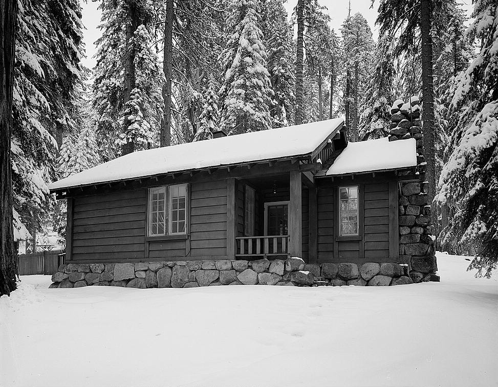 National Park Service Residence No. 55, Giant Forest Village-Camp Kaweah Historic District — Sequoia National Park. Giant Forest Village, Tulare County, California - exterior, looking east. A HABS—Historic American Buildings Survey of California image.